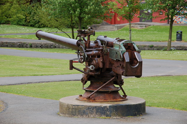 Left-side breech end view of the 10,5 cm gun taken from German submarine U-19. In Ward Park, Bangor, Northern Ireland.